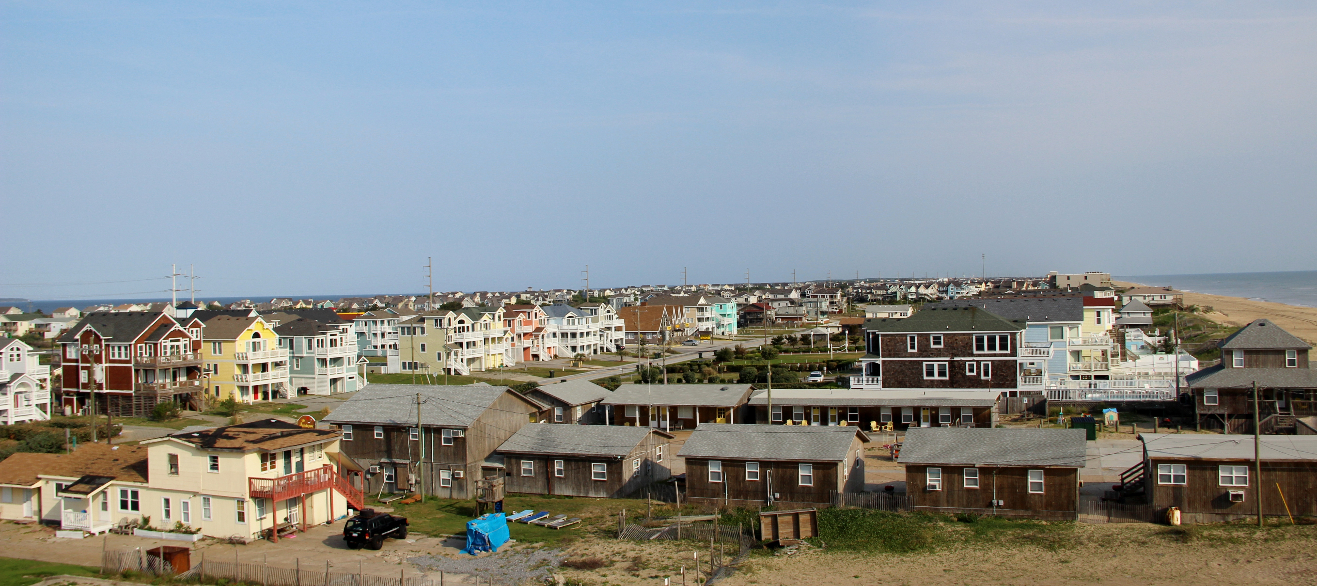 Beach houses along the Atlantic Ocean in Nags Head, North Carolina